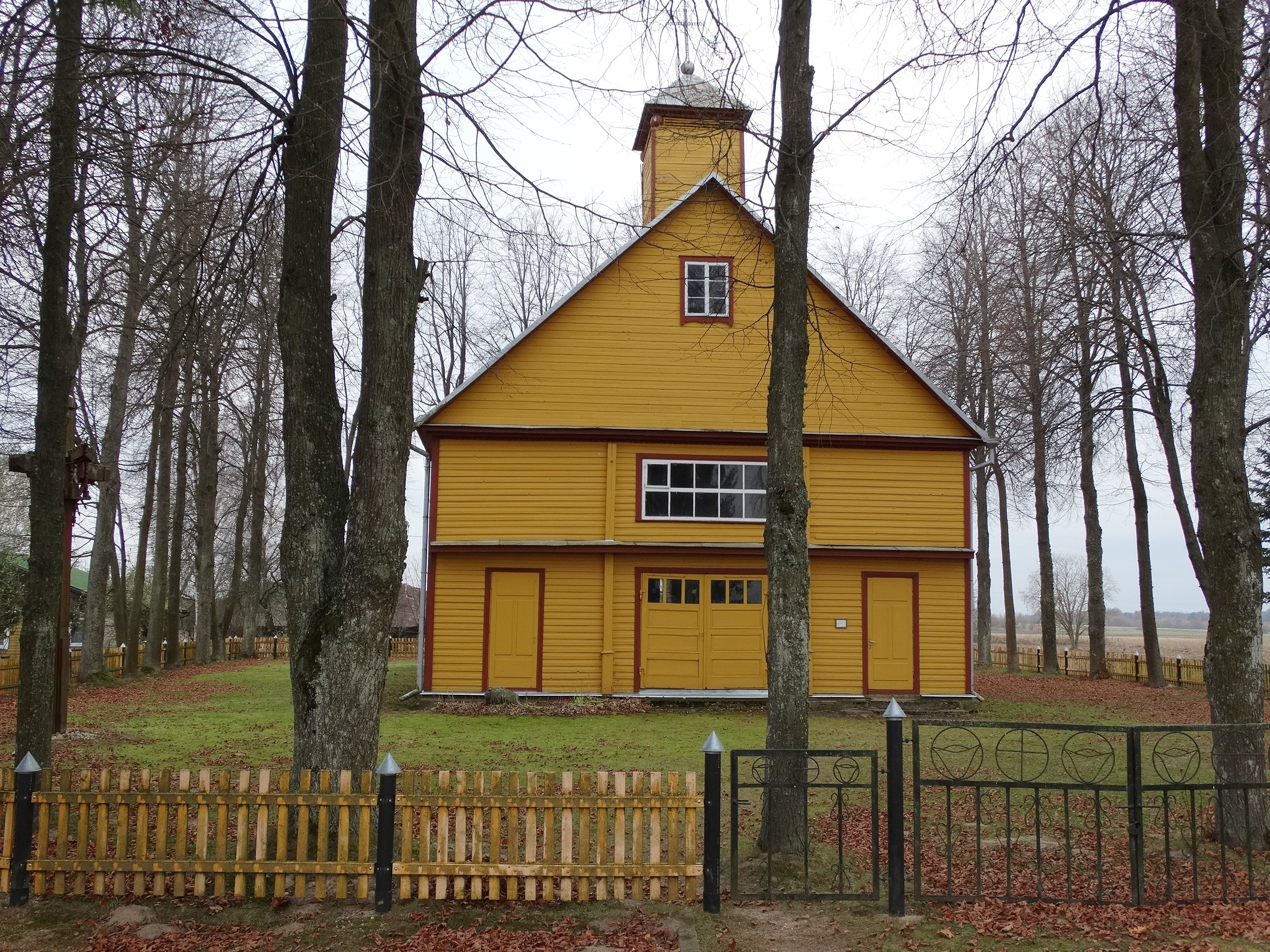 Roman Catholic Church in Krivonys, Kaišiadorys District, Lithuania